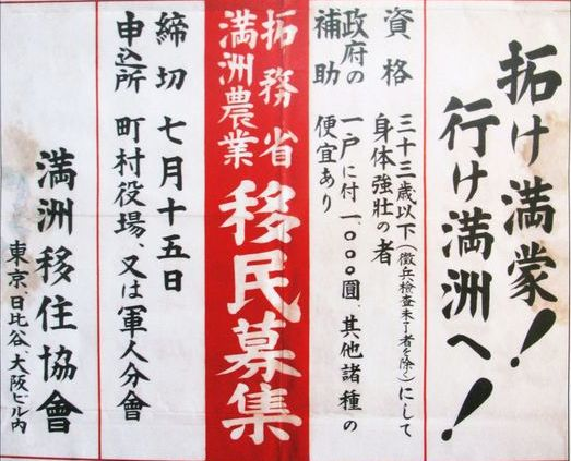 Poster for recruiting immigrants to Manchukuo from Japan. Published by 満州移住協会, which is an organization established in 1935.